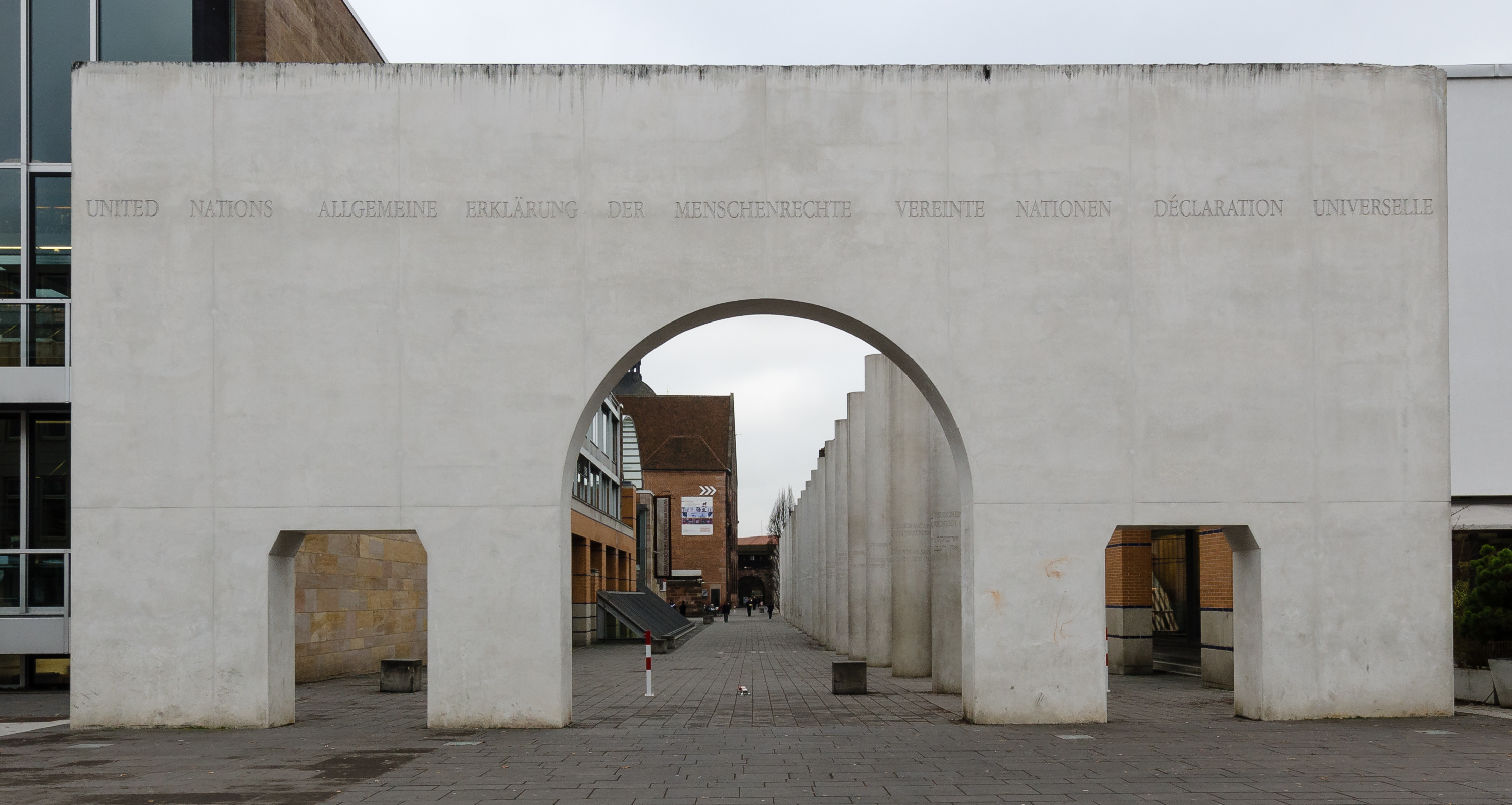 Entry to the Way of Human Rights in Nuremberg